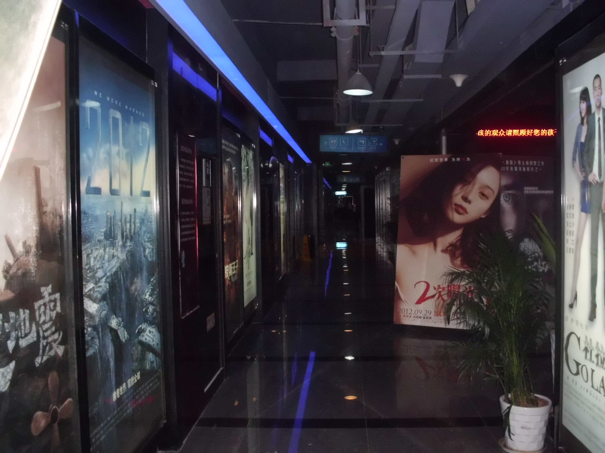 Huayuan cinema